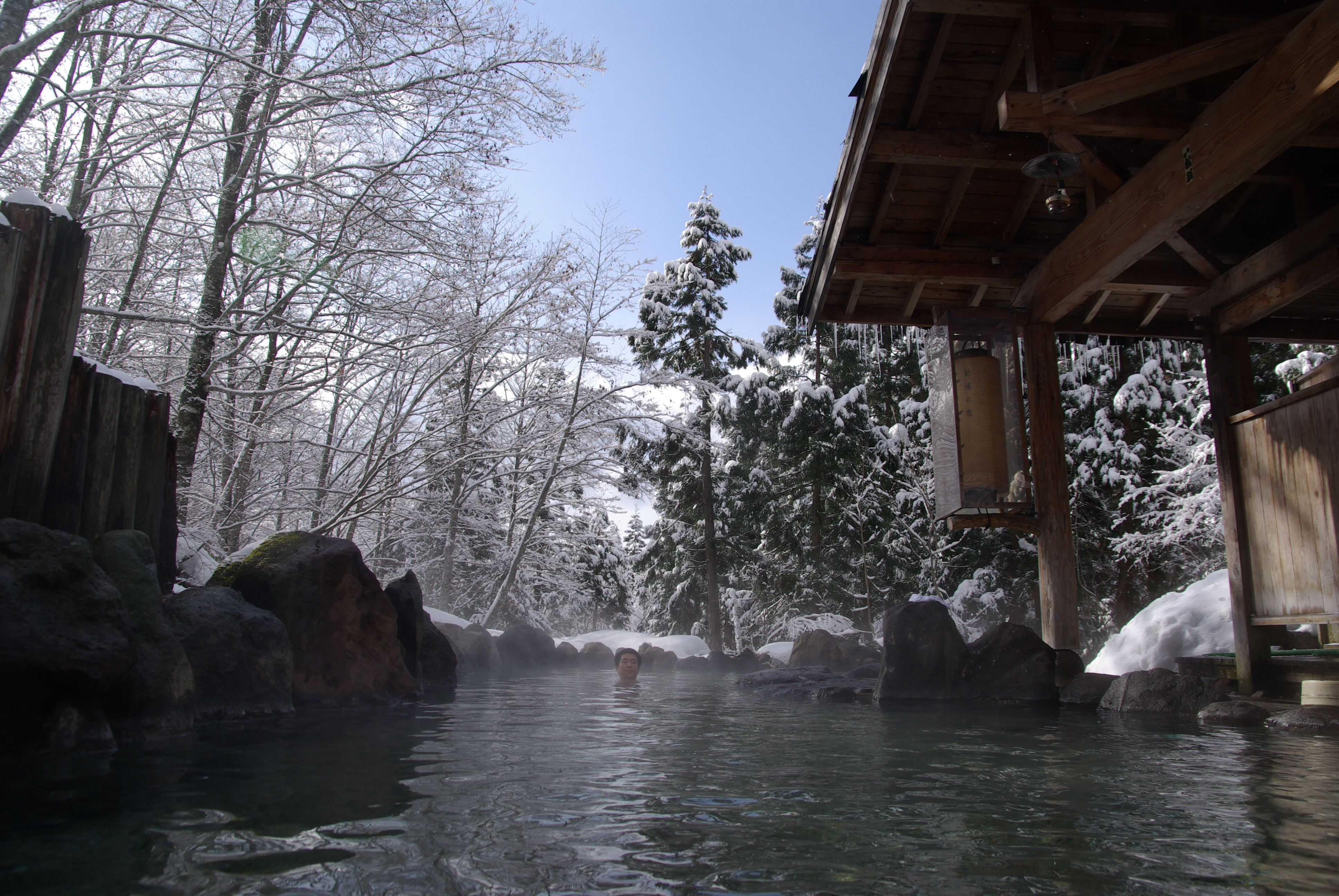 Ganiba Onsen in Semboku, Akita, Japan.